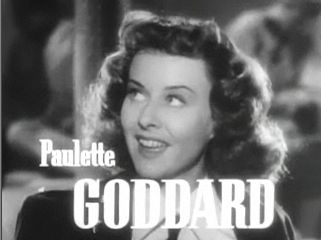 Cropped screenshot of Paulette Goddard from the trailer for the film So Proudly We Hail! (1943).